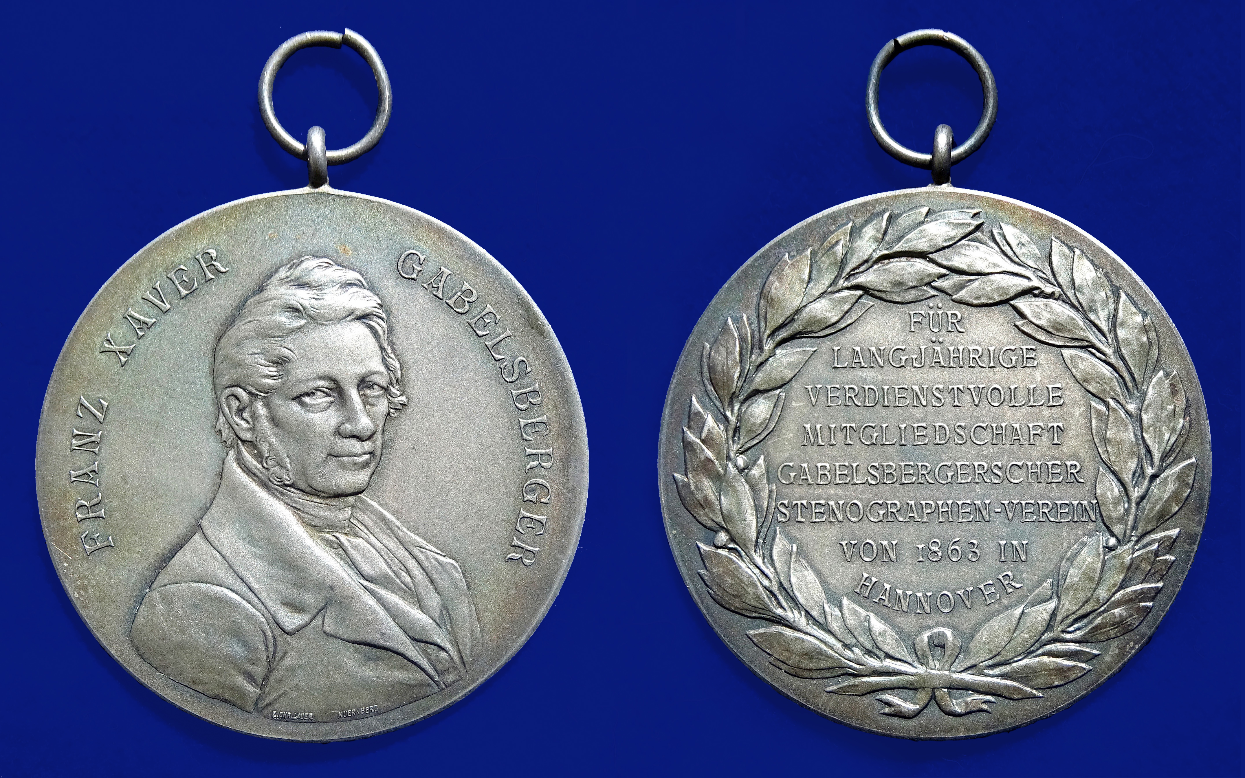 Art Nouveau Medallion d. = 40 mm. 25.97 g Ag 0.990 Fine Silver Gabelsberger, Franz Xaver, 1789 München - 1849 Munich, Germany. Portrait r., curved above: "FRANZ XAVER GABELSBERGER"/ 8 lines within wreath: "FÜR LANGJÄHRIGE VERDIENSTVOLLE MITGLIEDSCHAFT GABELSBERGERSCHER STENOGRAPHEN- VEREIN VON 1863 IN HANNOVER". Deutsche Fotothek Datensatz 71399800. Forrer III, p. 325. Mint: L. Chr. Lauer, Nürnberg Condition: UNCIRCULATED, no hidden problems.